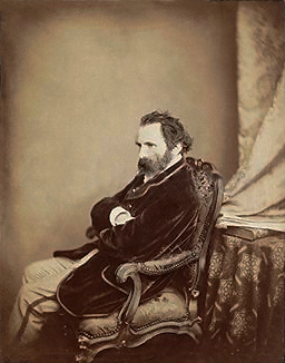 Antoine Samuel Adams-Solomon.